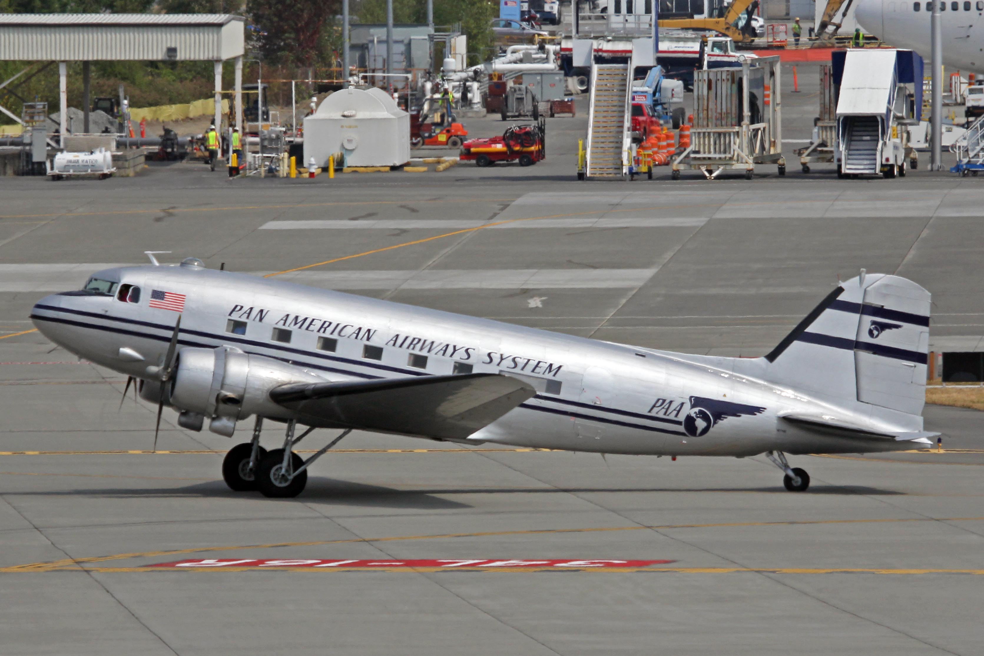 The classic lines of the DC-3... and the sound of the engines... took me back to Starways in Liverpool UK (LPL) in 1963. This was built as a C-47A for the USAAF as 43-47377 and shortly thereafter was converted to an R4D-6 for the US Navy as Bu 17263 (hat tip to Caz Caswell for the additional info)